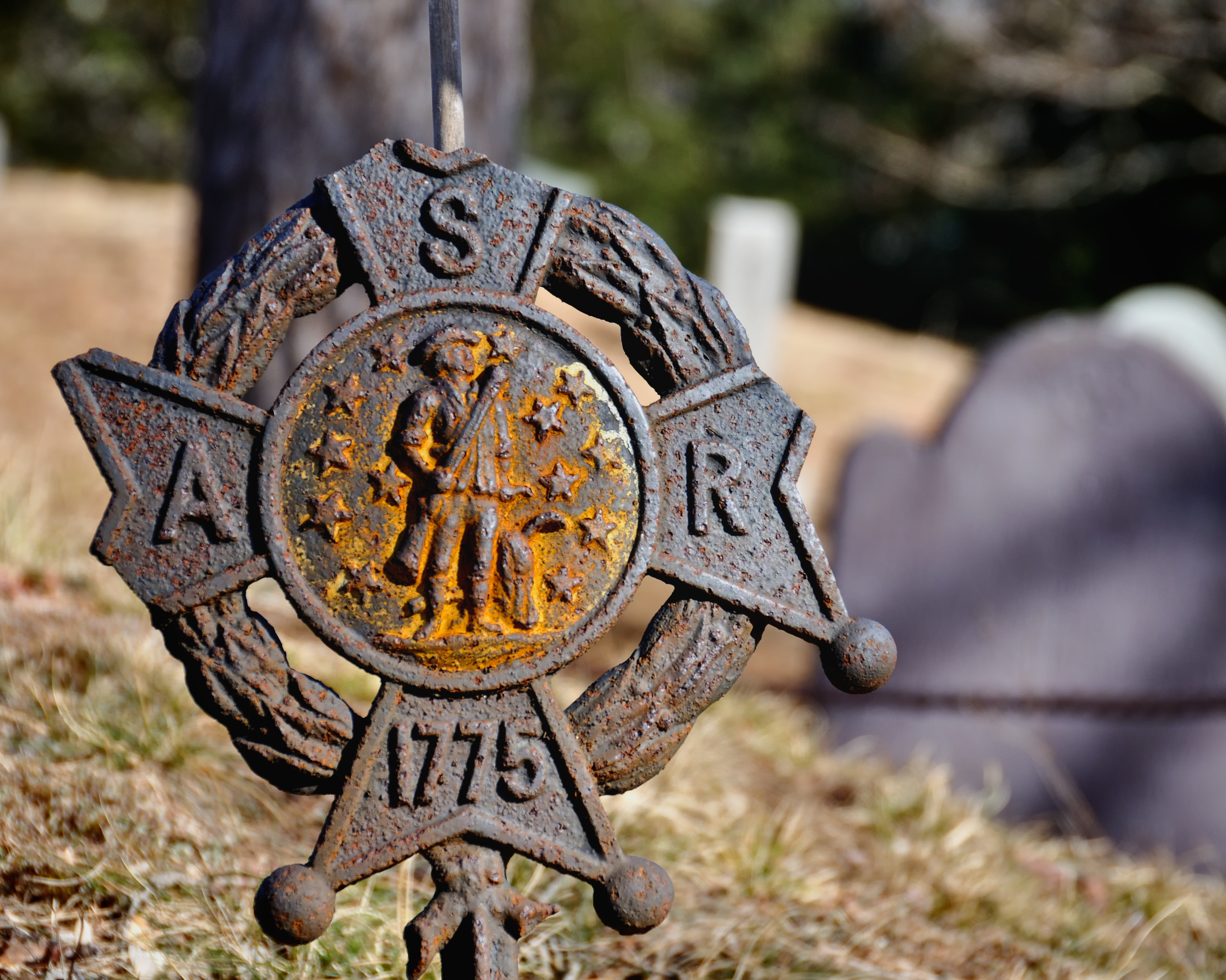 Sons of the American Revolution grave marker, Old Ship Burying Ground, Old Ship Church, Hingham, Massachusetts